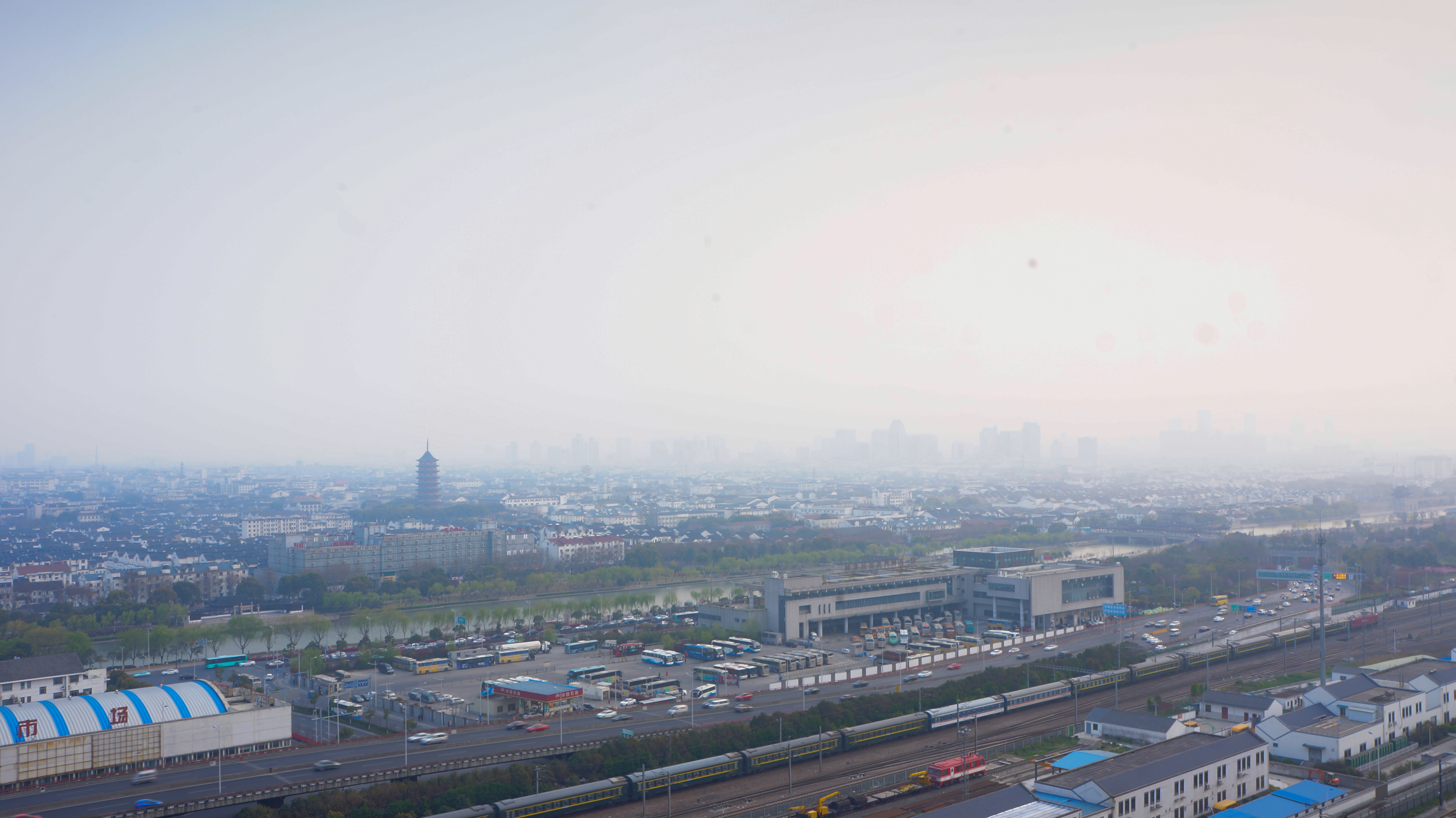 201603 T116 approaches to Suzhou Station